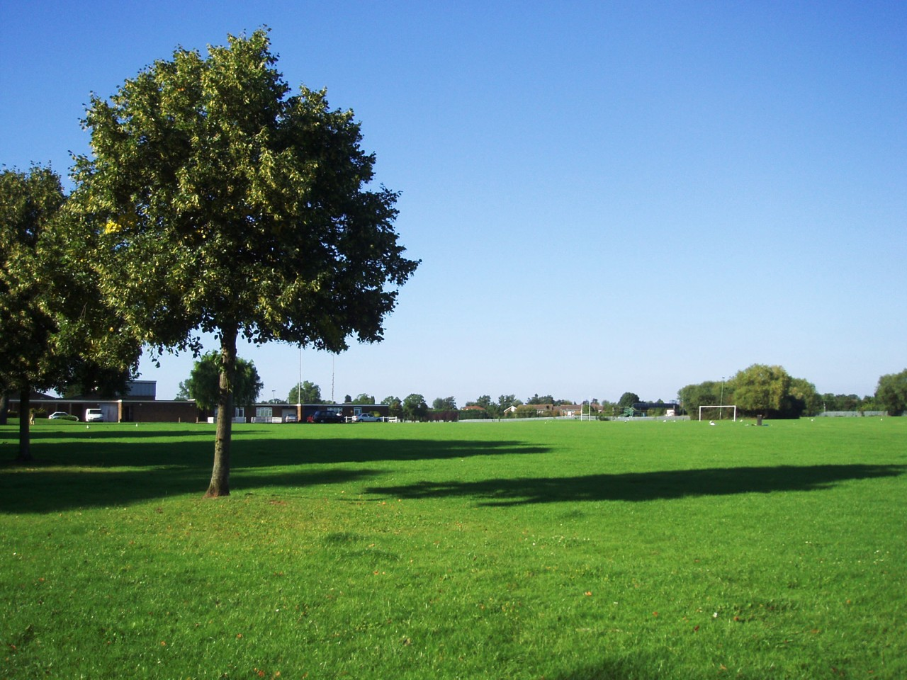 Mainly just an open area for sports, with a sports pavilion. There's a golf course to the west of the park. Photo taken August 2007. Owner: London Borough of Harrow.